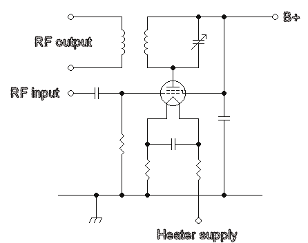 A passive grid tetrode RF amp stage, like the tuned grid drawing the decoupling and neut. are not shown